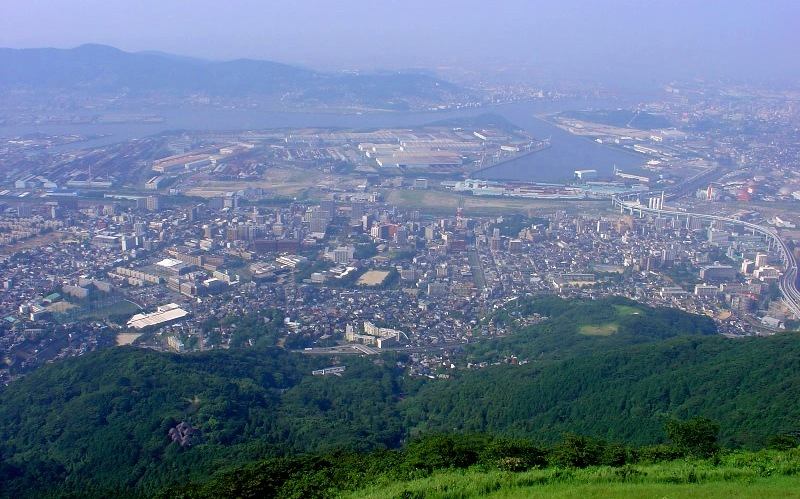 View from Mt.Sarakura.(Kitakyushu City, Fukuoka Prefecture, Japan)